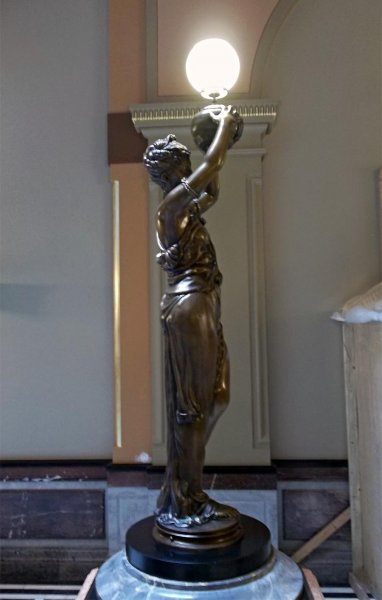 This is one of the pair of female statues added to the Illinois New State Capitol as part of its $50 million renovation from 2011-13. It sits at the base of the grand staircase in the west wing. It is a copy from the Iowa state capitol